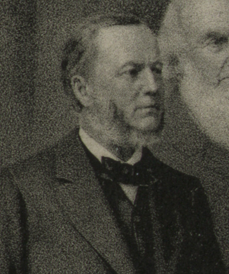 William Daniel cropped from a Prohibition Party Leaders image, 1884